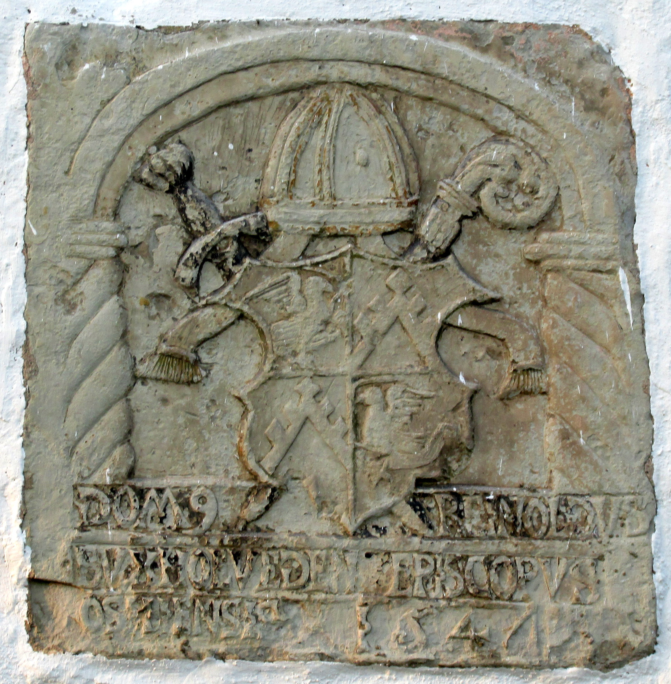 Coat of arms of Bishop Reinhold von Buxhoeveden on the Koluvere castleEesti: Reinhold von Buxhoevedeni vapp Koluverelinnusel 2014. aastal.